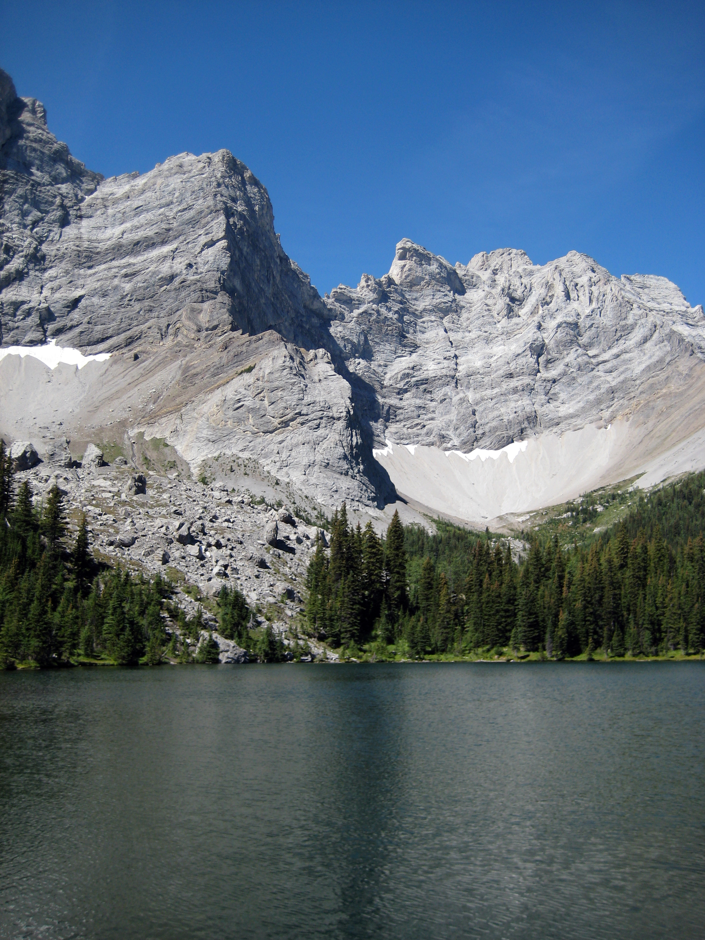 Picture of: Elbow-Sheep Wildland Provincial Park in Alberta, Canada. Photographer: Michael Konen. Date: 08-14-2007